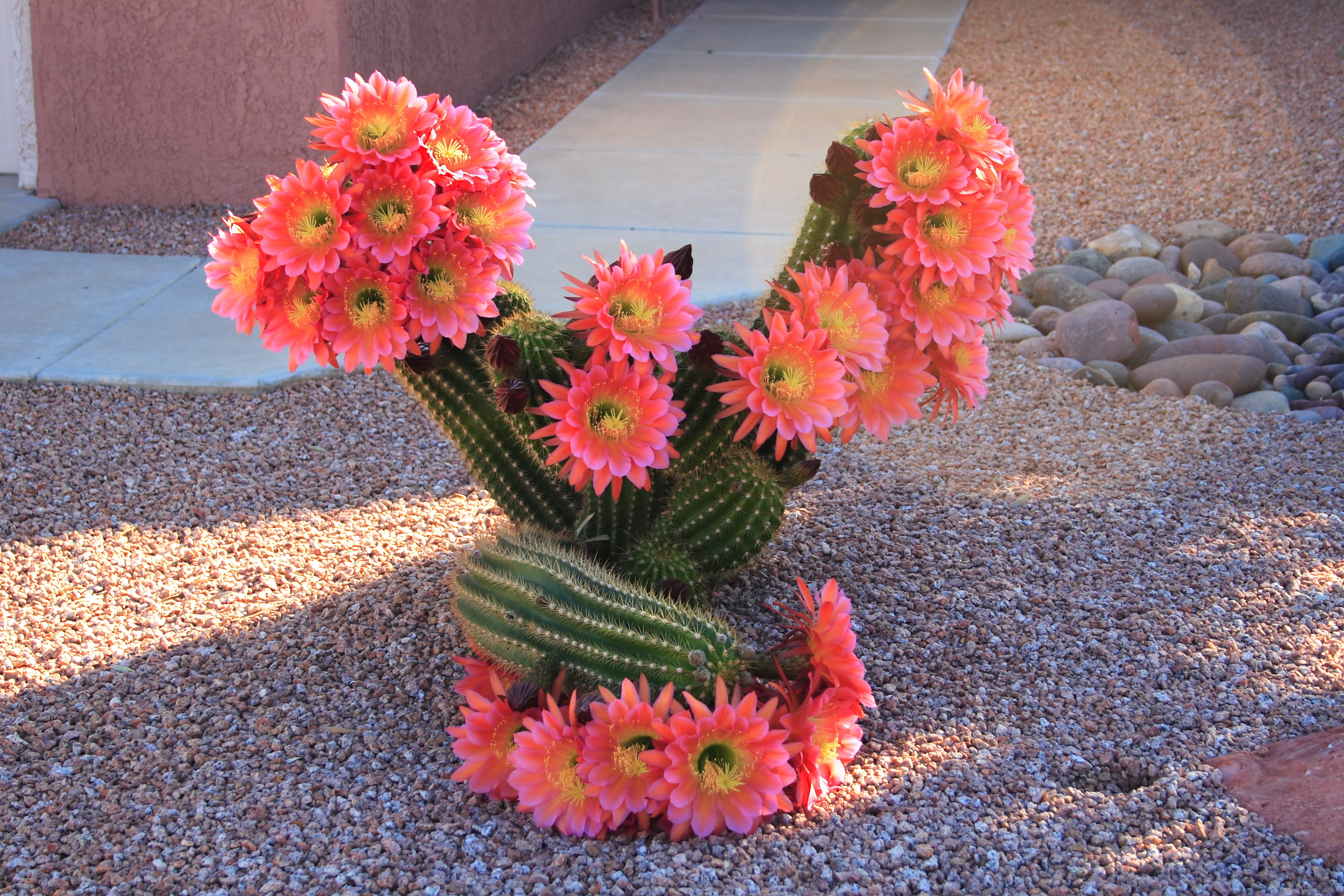 Cactus Flowering, Sun City West, Arizona